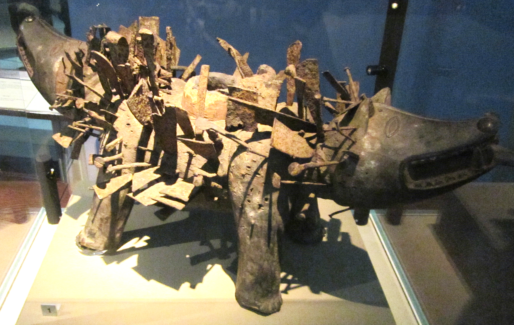 Nkisi Nkondi Kozo (Kongo, Landana, Cabinda), World Museum Liverpool, England.